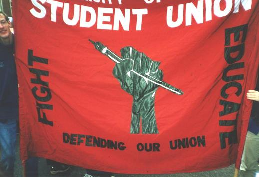 The banner of the University of Kent Students' Union featuring the students' union's old logo. Category:Images of the University of Kent